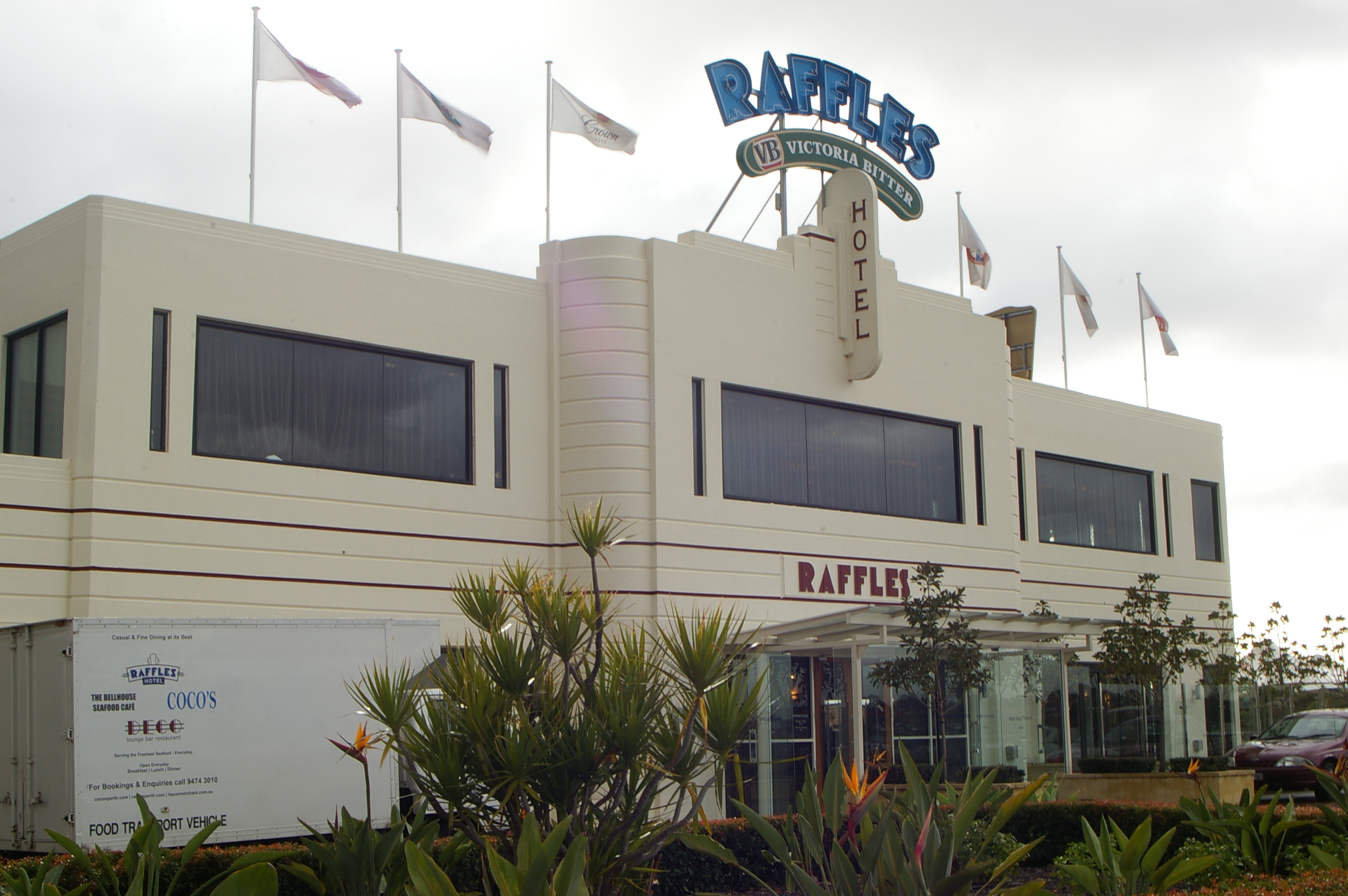 Art Deco design buildings around perth The Raffles hotel, originally a hotel now a bar with multi story apartments behind near Canning Bridge Applecross on the Canning River